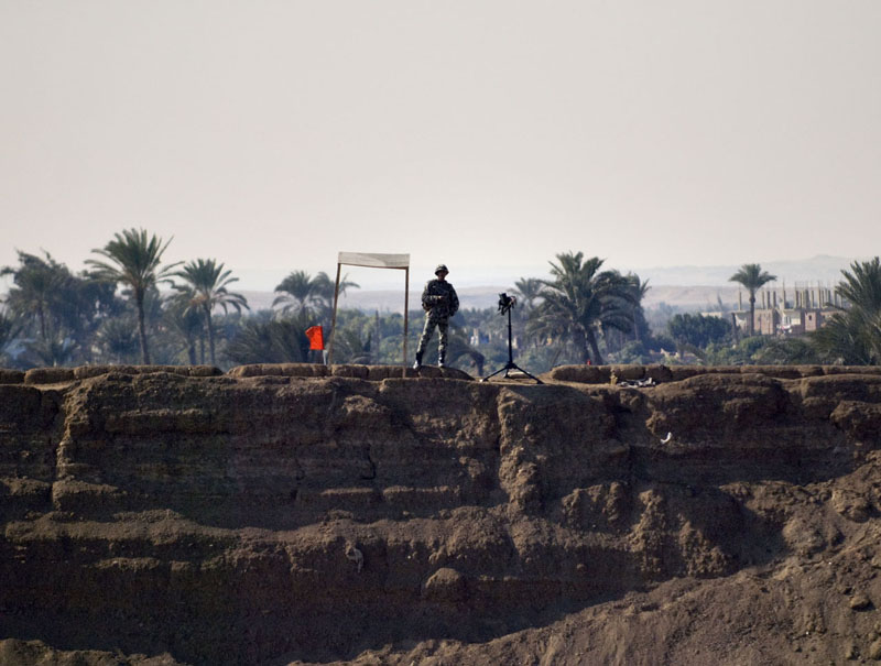 Egyptian military forces guard post at the brink of the Suez Canal.